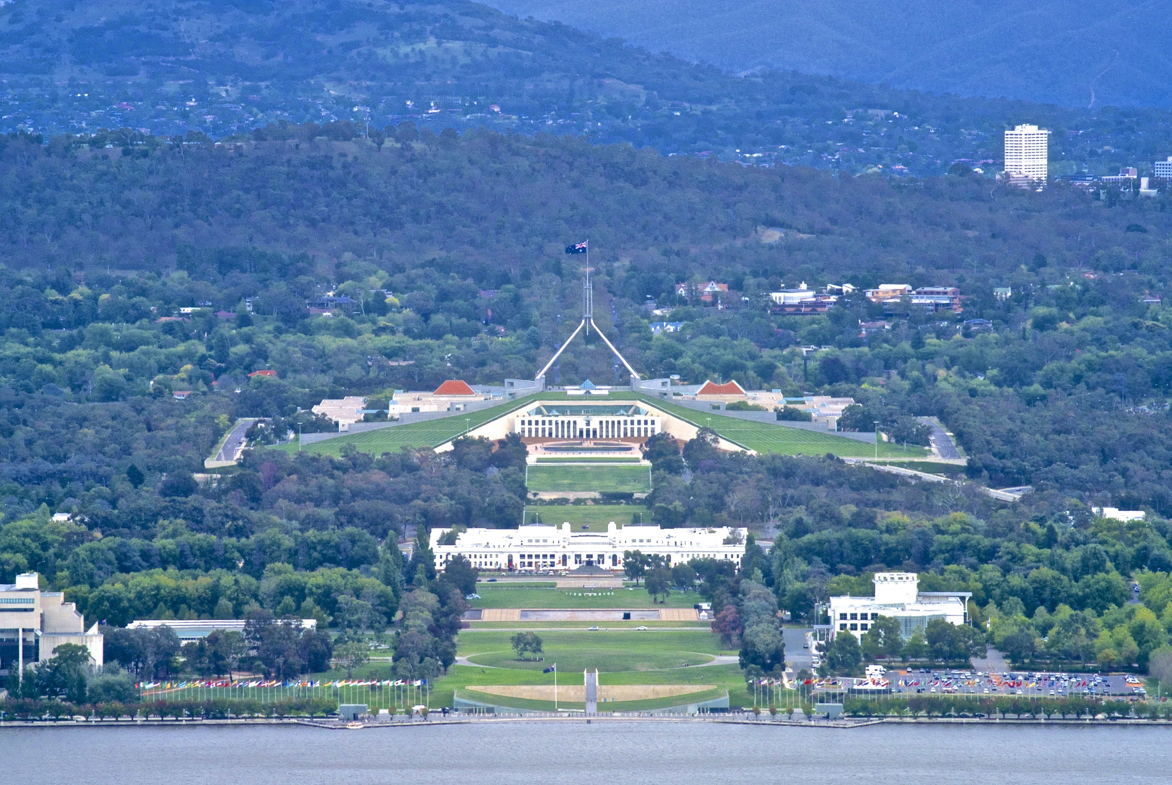 Lake Burley Griffin, in the foreground, with Old and New Parliament House in the background viewed from Mount Ainslie, Canberra, ACT.